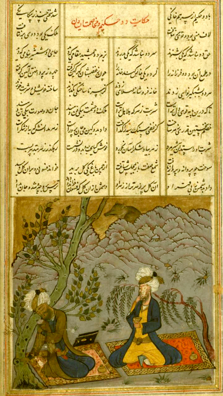 Nizami Ganjavi - Two Quarreling Scholars